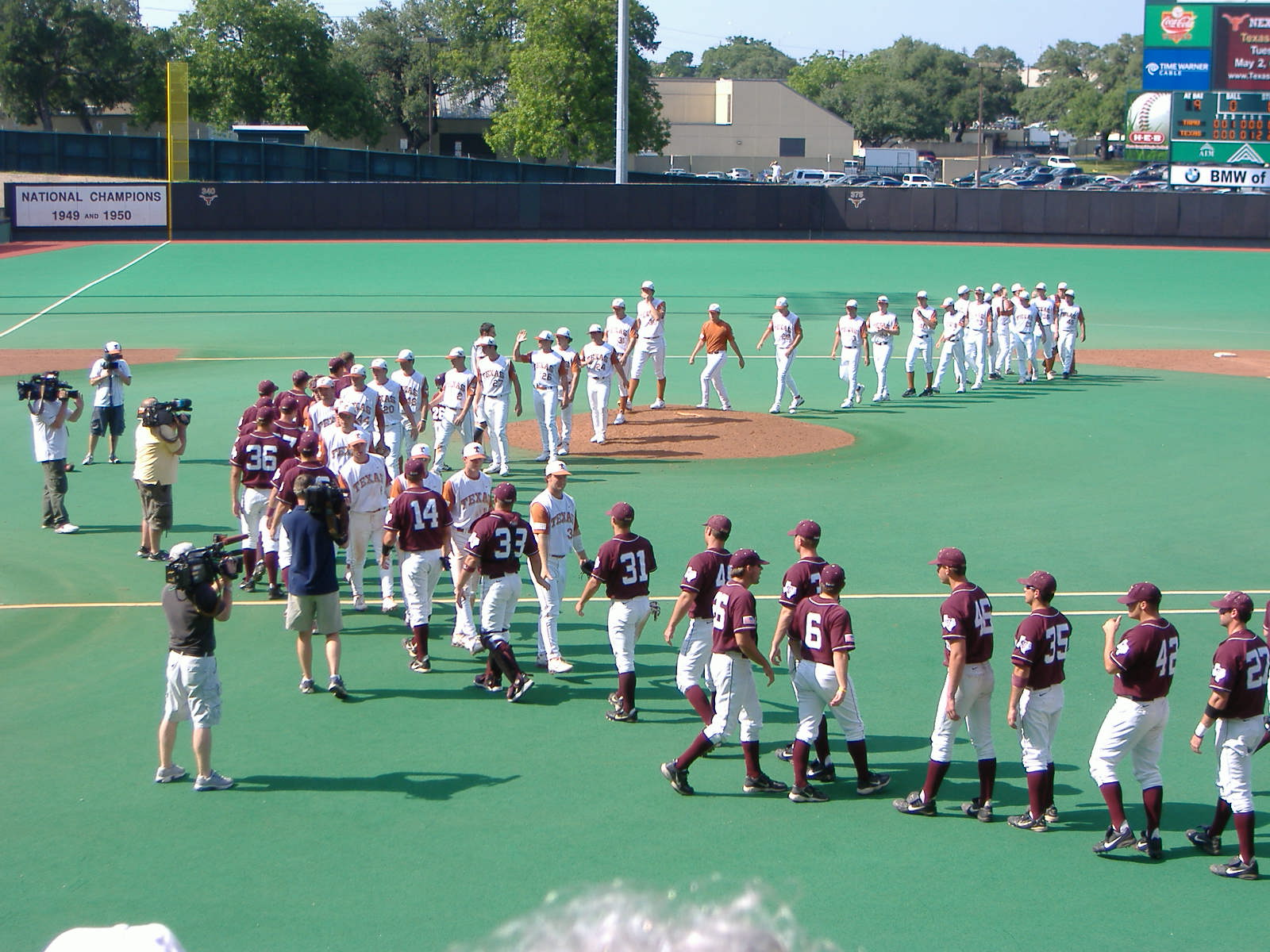 After a Lone Star Showdown baseball game at the UFCU Disch-Falk Field